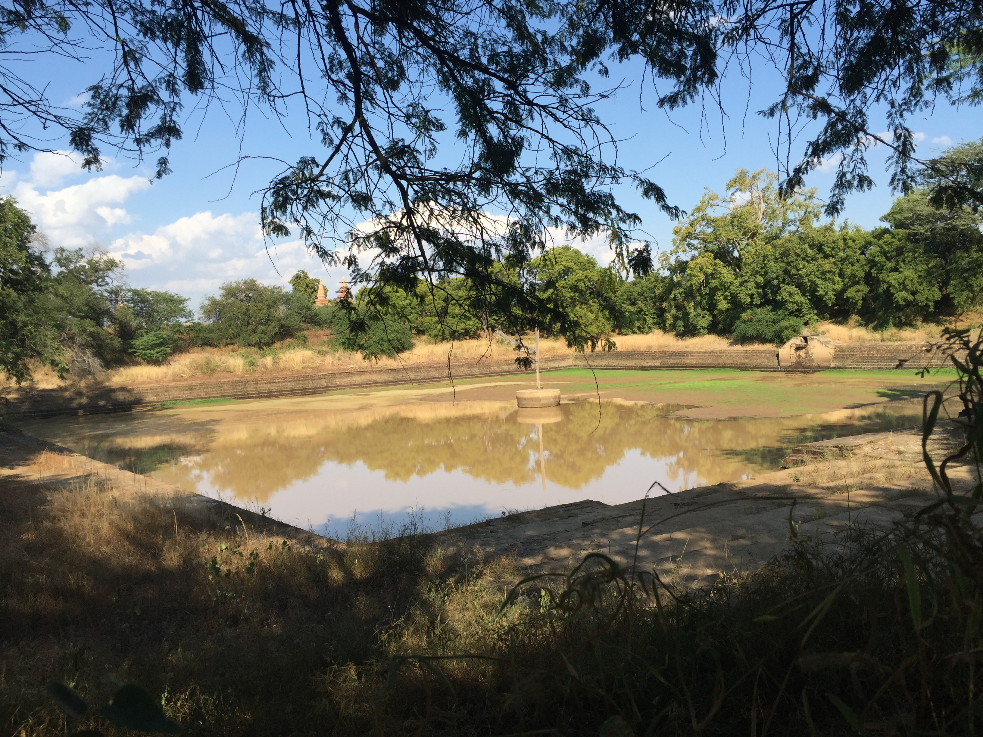 Min Nan Thu Lake from Min Nan Thu Village. The lake was donated by Minister Min Nan Thu at Bagan era. မြန်မာဘာသာ: မင်းနန်သူအမတ်ကြီး လှူဒါန်းခဲ့သော မင်းနန်သူကန်